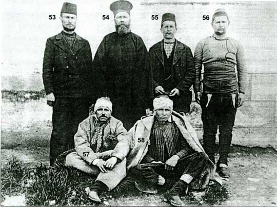 Todor Alexandrov - IMARO revolutionary, and other people from Macedonia as prisoners in Minor Asia, Ottoman empire